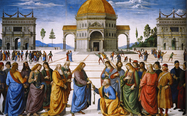 Christ Handing the Keys to St. Peter by Pietro Perugino (1481-82) Fresco, 335 x 550 cm Cappella Sistina, Vatican.